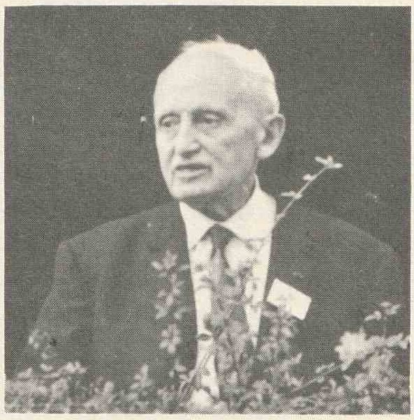 Léon Daum during speech inf rom of the Daum family on September 12 1964